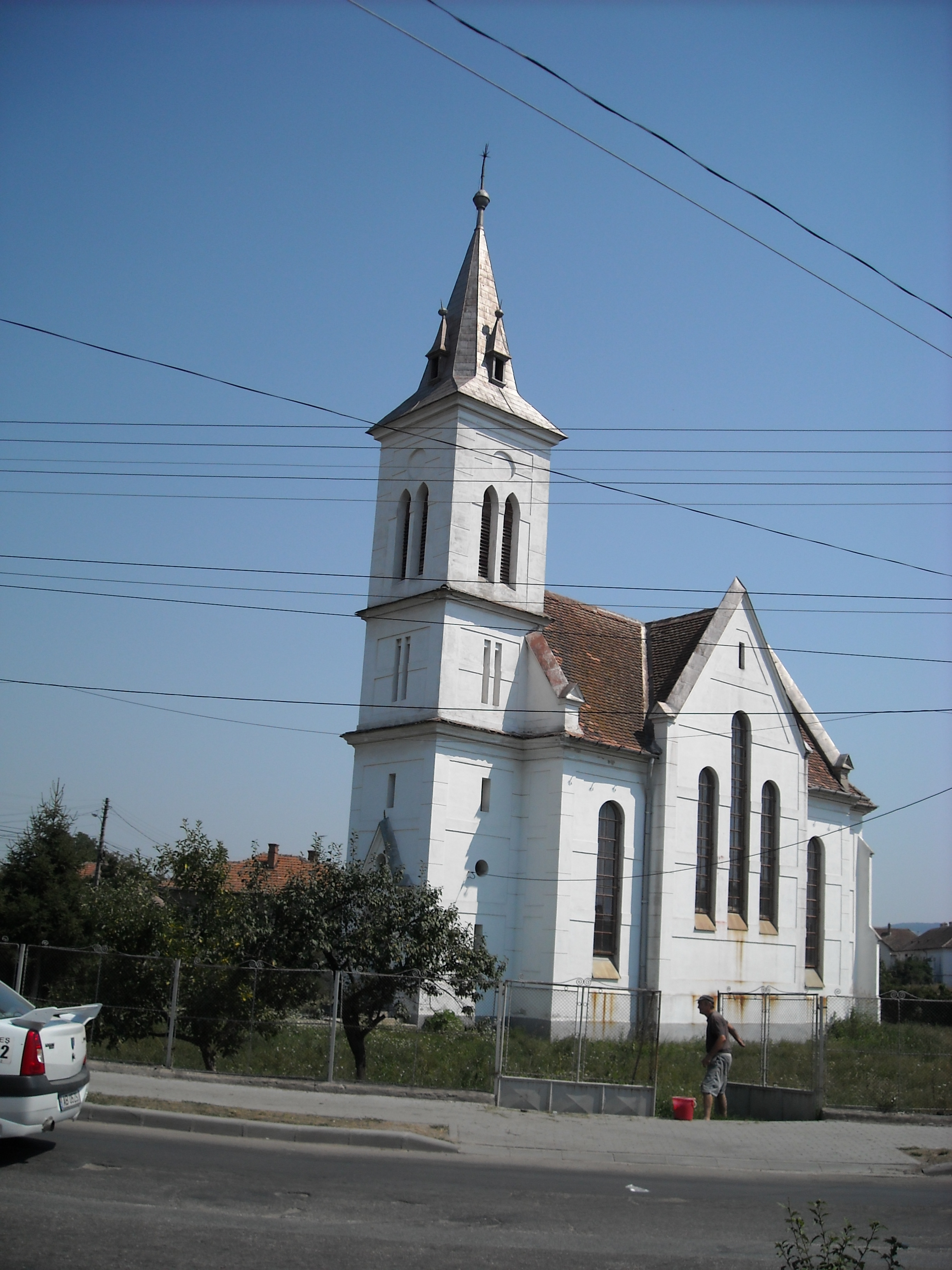 Reformed Church in Sebeş (Szászsebes, Mühlbach)